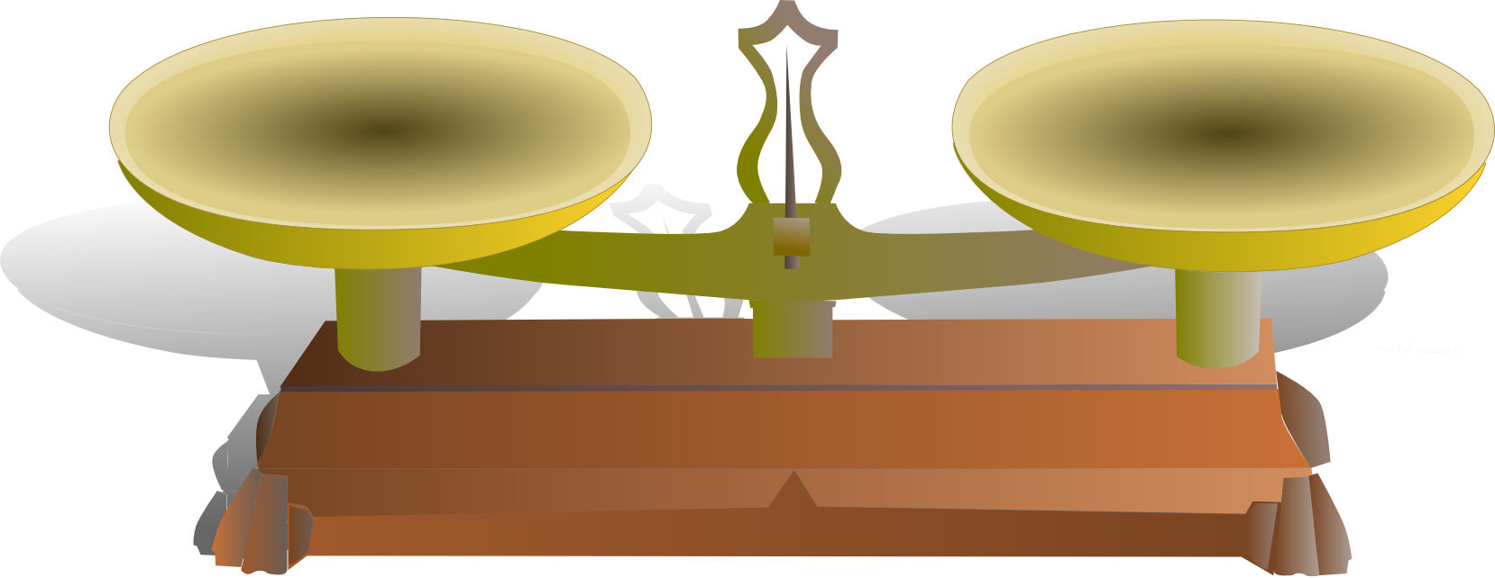 Roberval balance